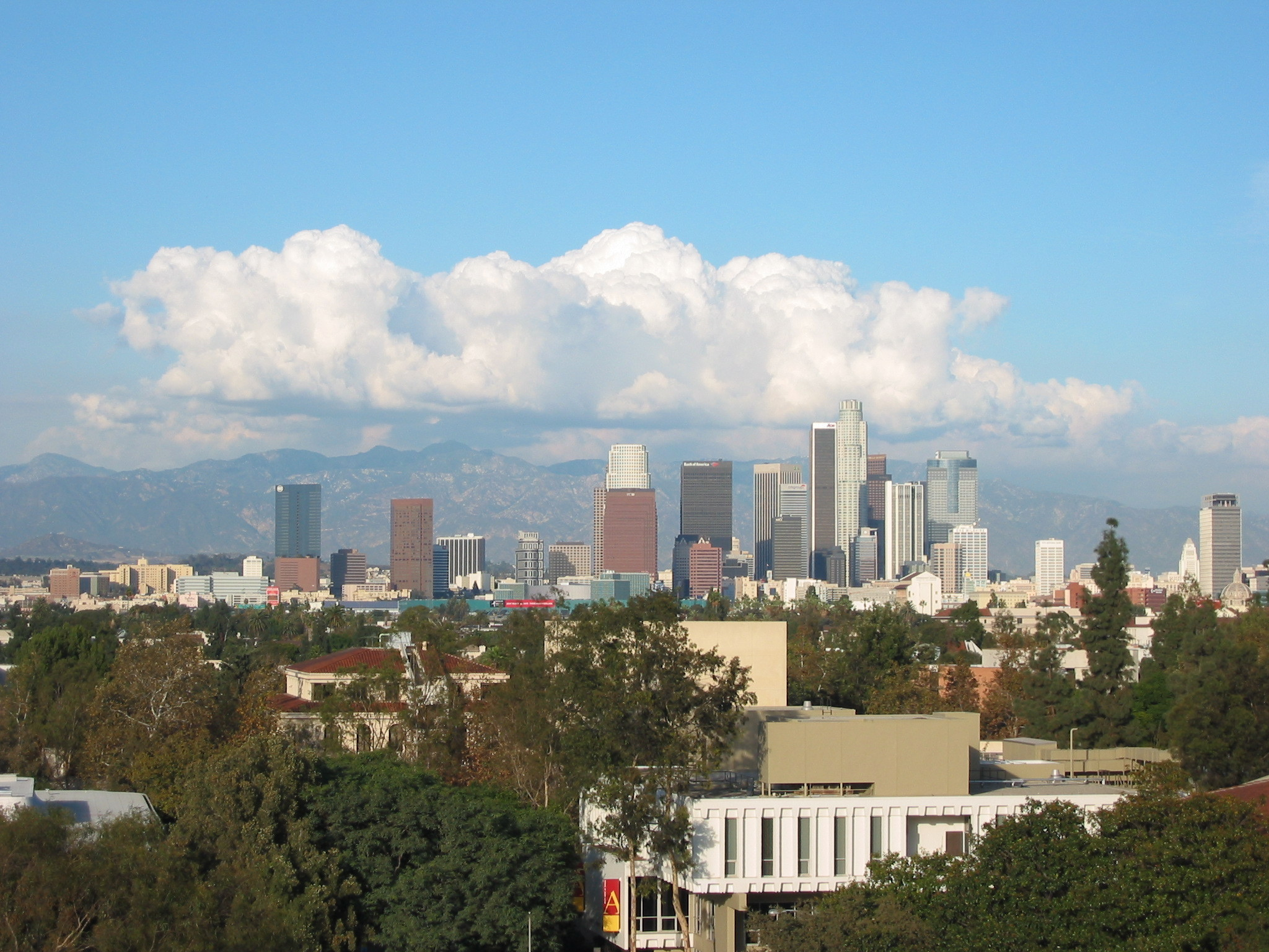 Downtown Los Angeles taken from the roof of the Hedco Neuroscience Building at the University of Southern California.